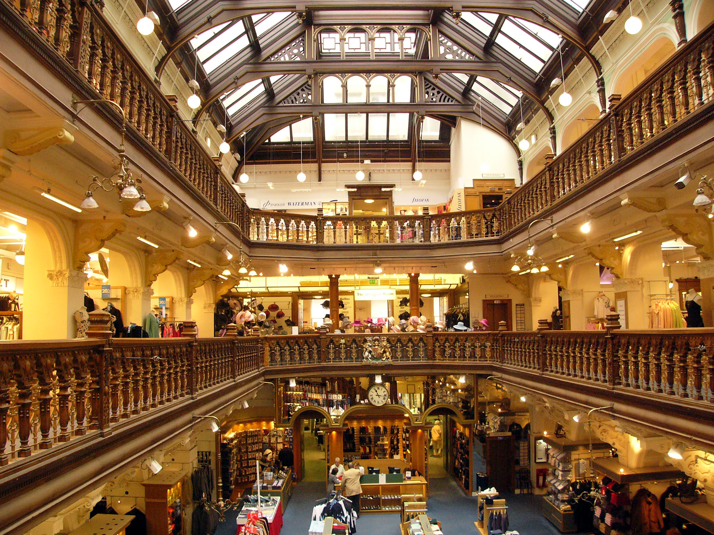 The department store "Jenners" in the Princes Street. Interior, landscape-size foto.